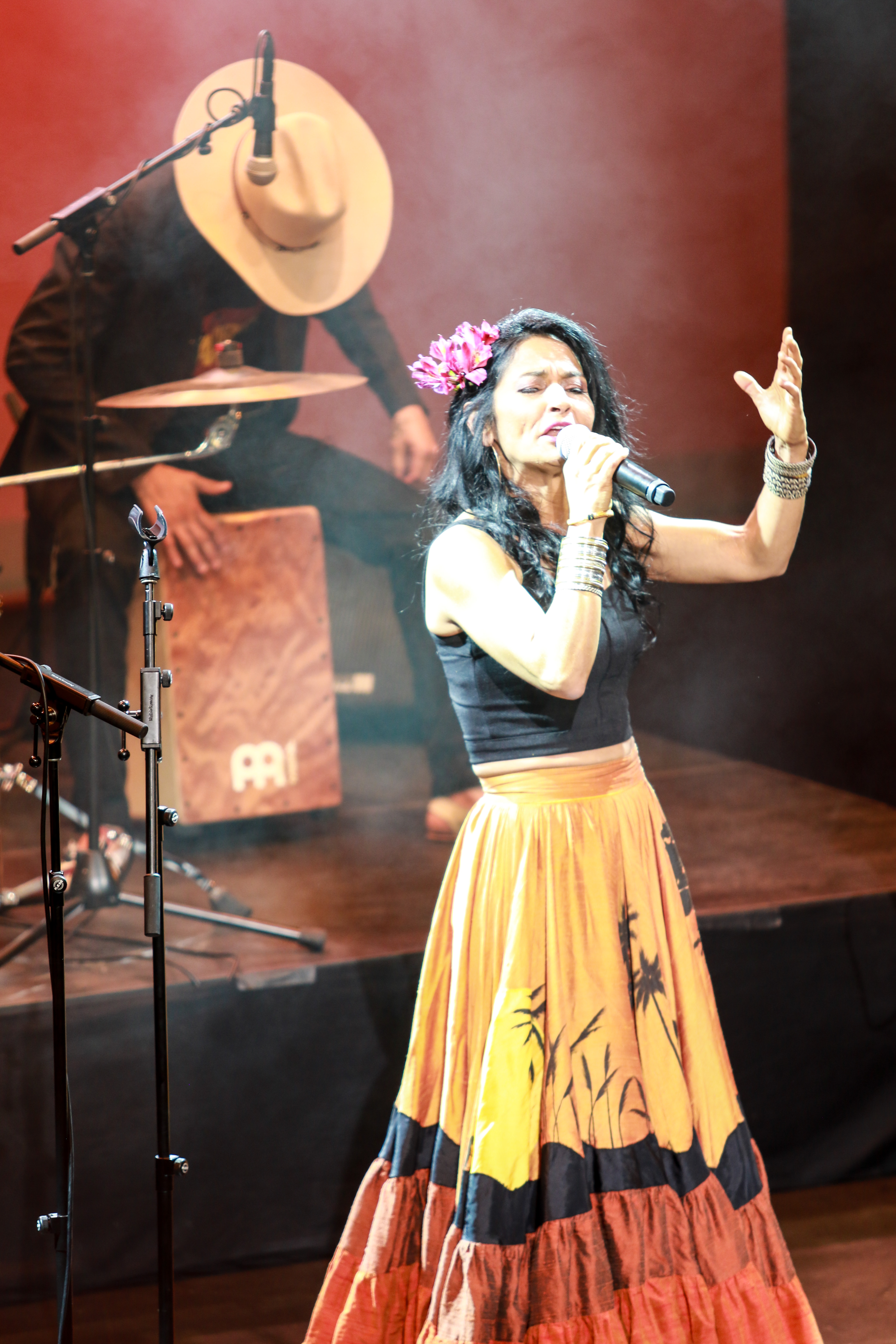 Ana Veydó, colombian singer and vocalist from Cimarron.